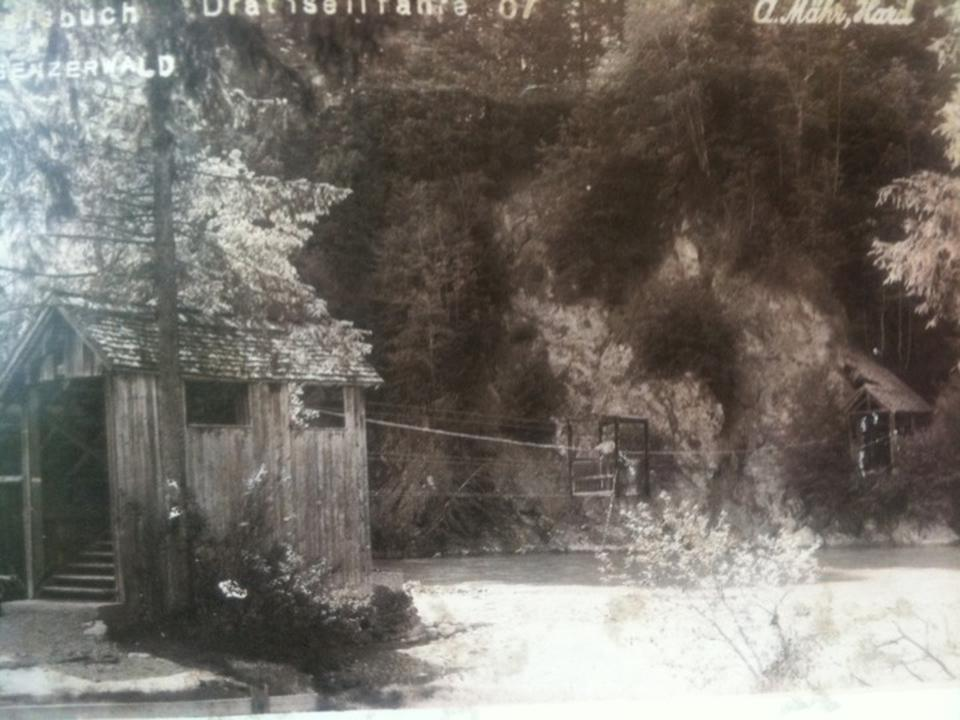 Ropeway-Ferry in Andelsbuch/Schwarzenberg in Vorarlberg, Austria over the river "Bregenzer Ach".